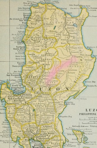 The areas in Isabela and Nueva Vizcaya provinces have been home to the Gaddang people for hundreds of years.